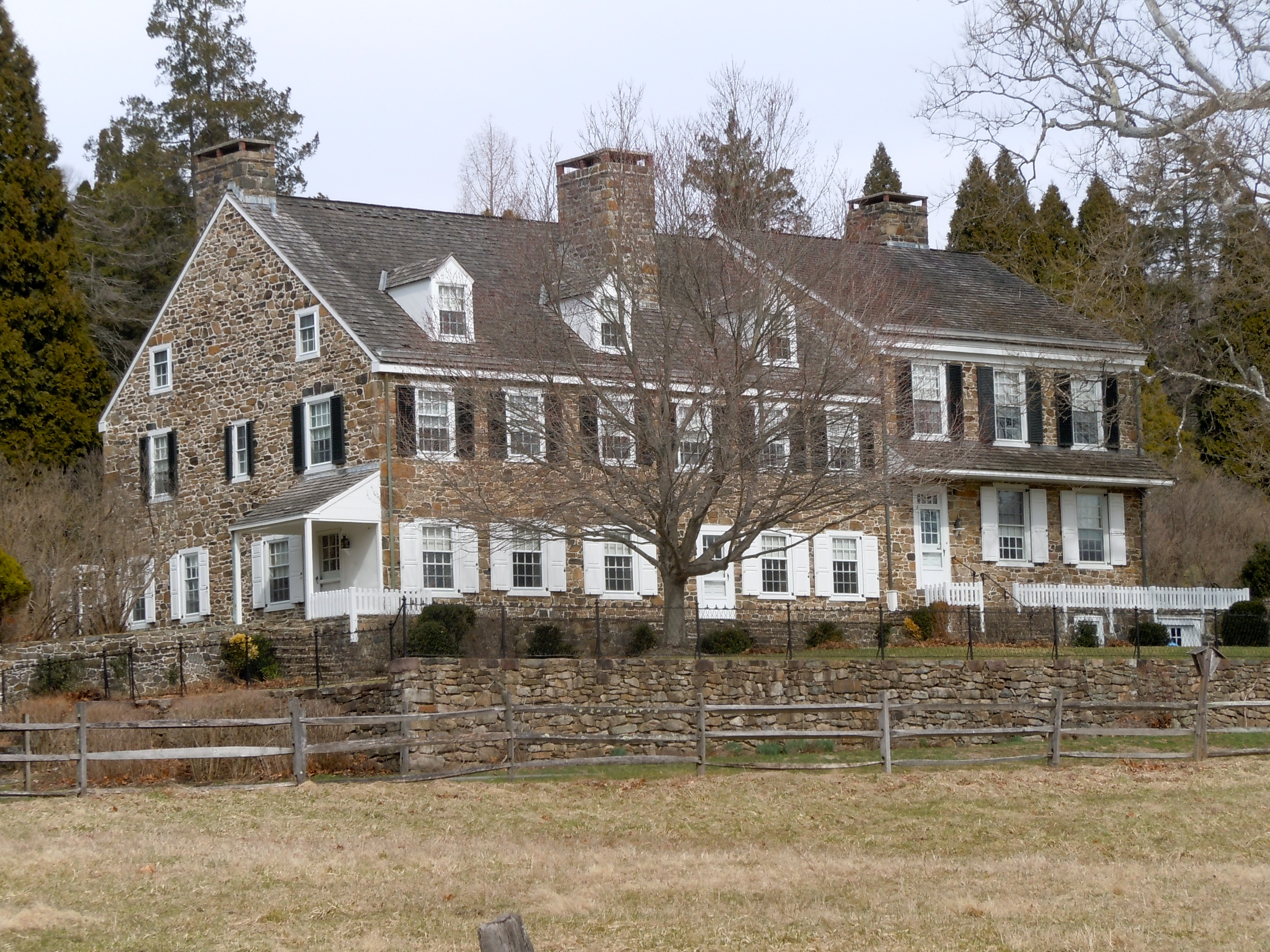 Farmhouse (not ironmaster's house) at Warwick Furnace/Farms on the NRHP since September 13, 1976. Located south of Knauertown off Pennsylvania Route 23 on Warwick Furnace Road in Warwick Township, Chester County, Pennsylvania, just north of the South Branck of French Creek and East Nantmeal Township.